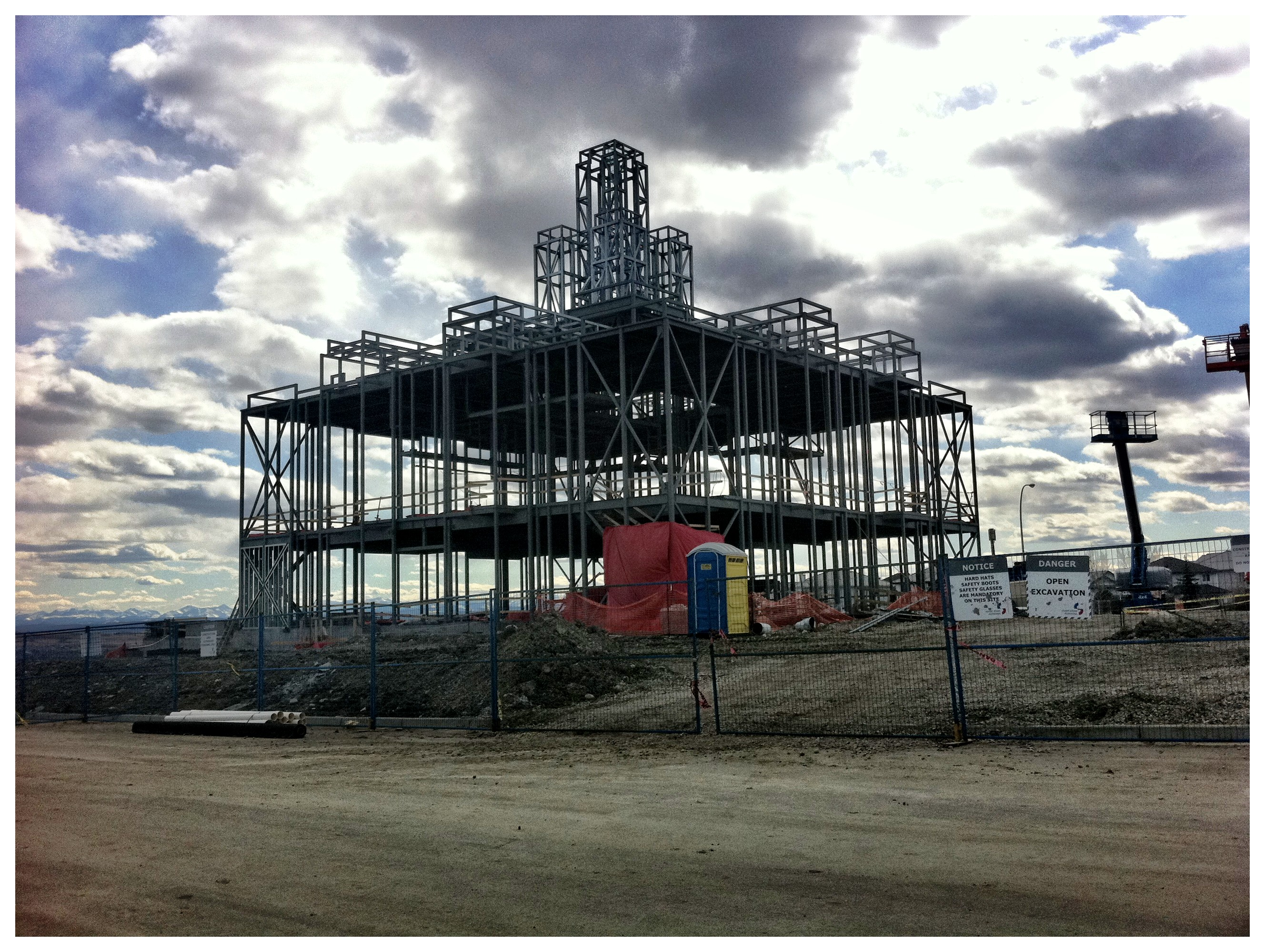 May 2011 construction status of the Calgary Alberta Temple of The Church of Jesus Christ of Latter-day Saints.